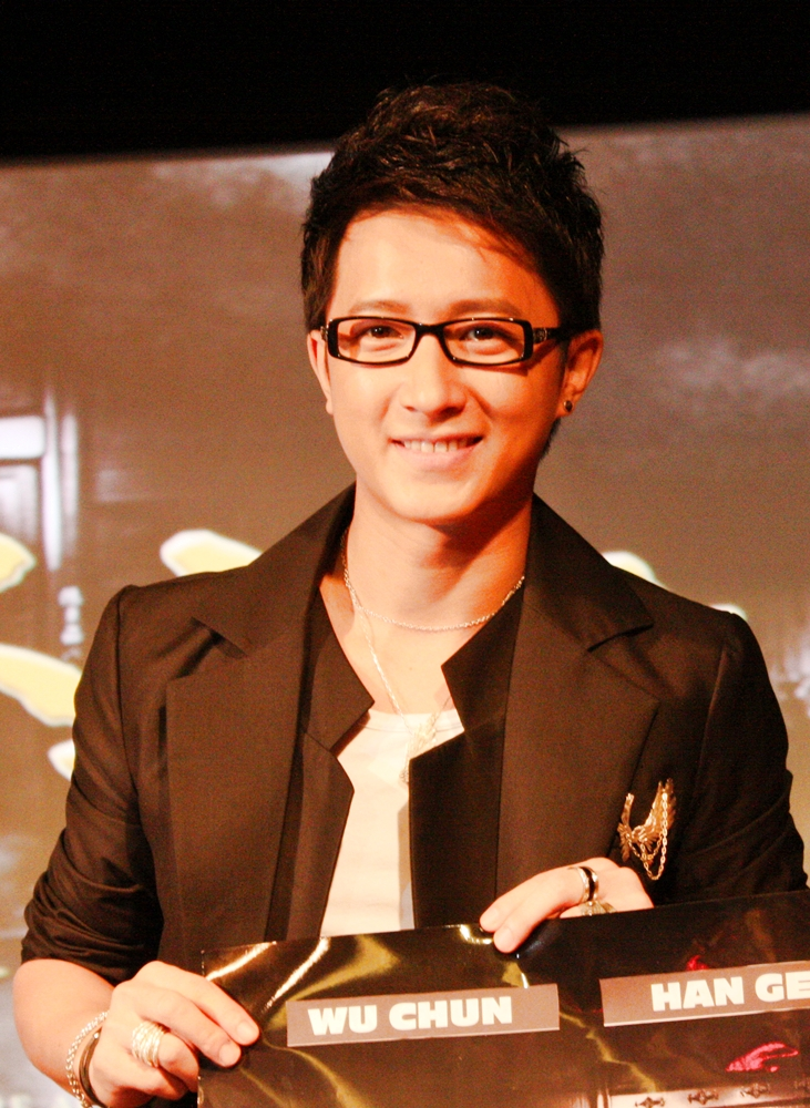 Hangeng when attend Press Conference his Movie "My Kingdom" in Jakarta, Indonesia